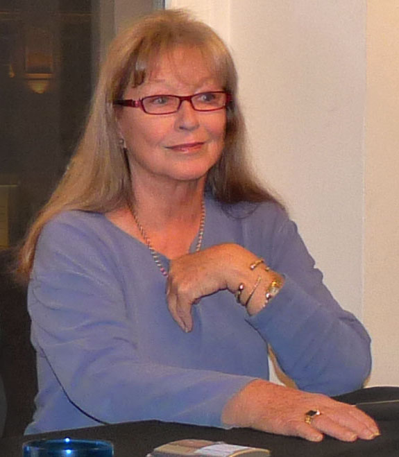 Actress Marina Vlady in Strasbourg